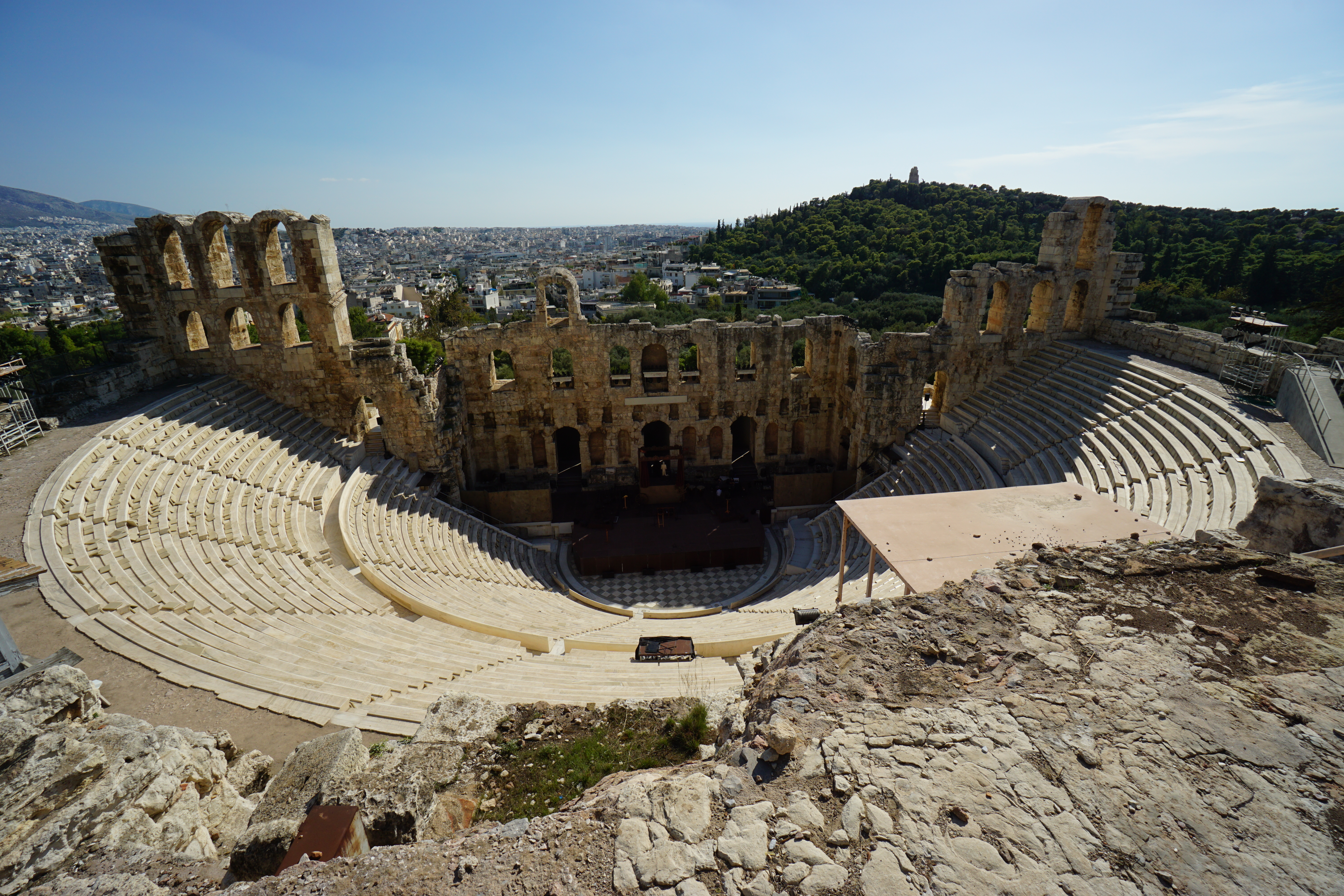 The Odeon of Herodes Atticus in Athens. In the distance the Monument of Philopappos. Athens, Greece.